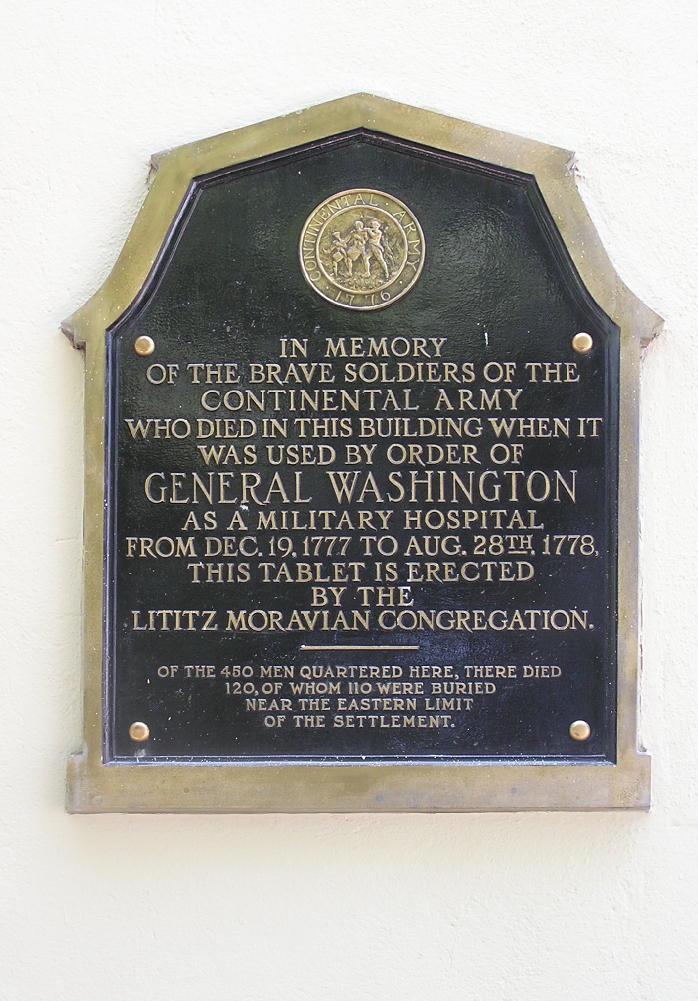 Military hospital in Lititz, Pennsylvania plaque